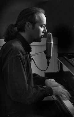 Marc Hoffman performing.